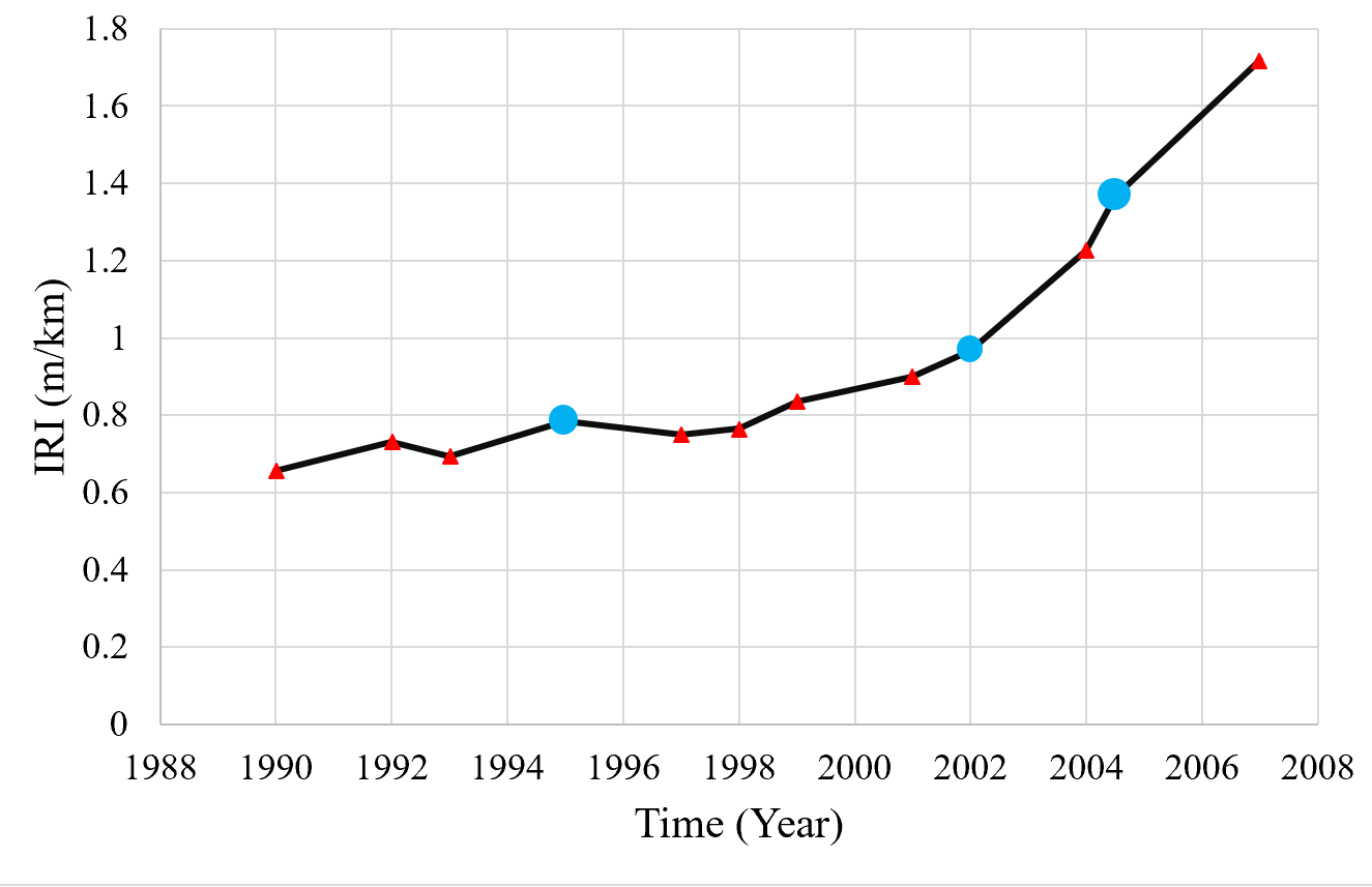 A graph showing the progression of the IRI for an asphalt road in Texas, US. The blue dots show the times of applying maintenance actions. The figure is recreated based on the data of the following reference: Piryonesi, S. M. (2019). The Application of Data Analytics to Asset Management: Deterioration and Climate Change Adaptation in Ontario Roads (Doctoral dissertation). Available at